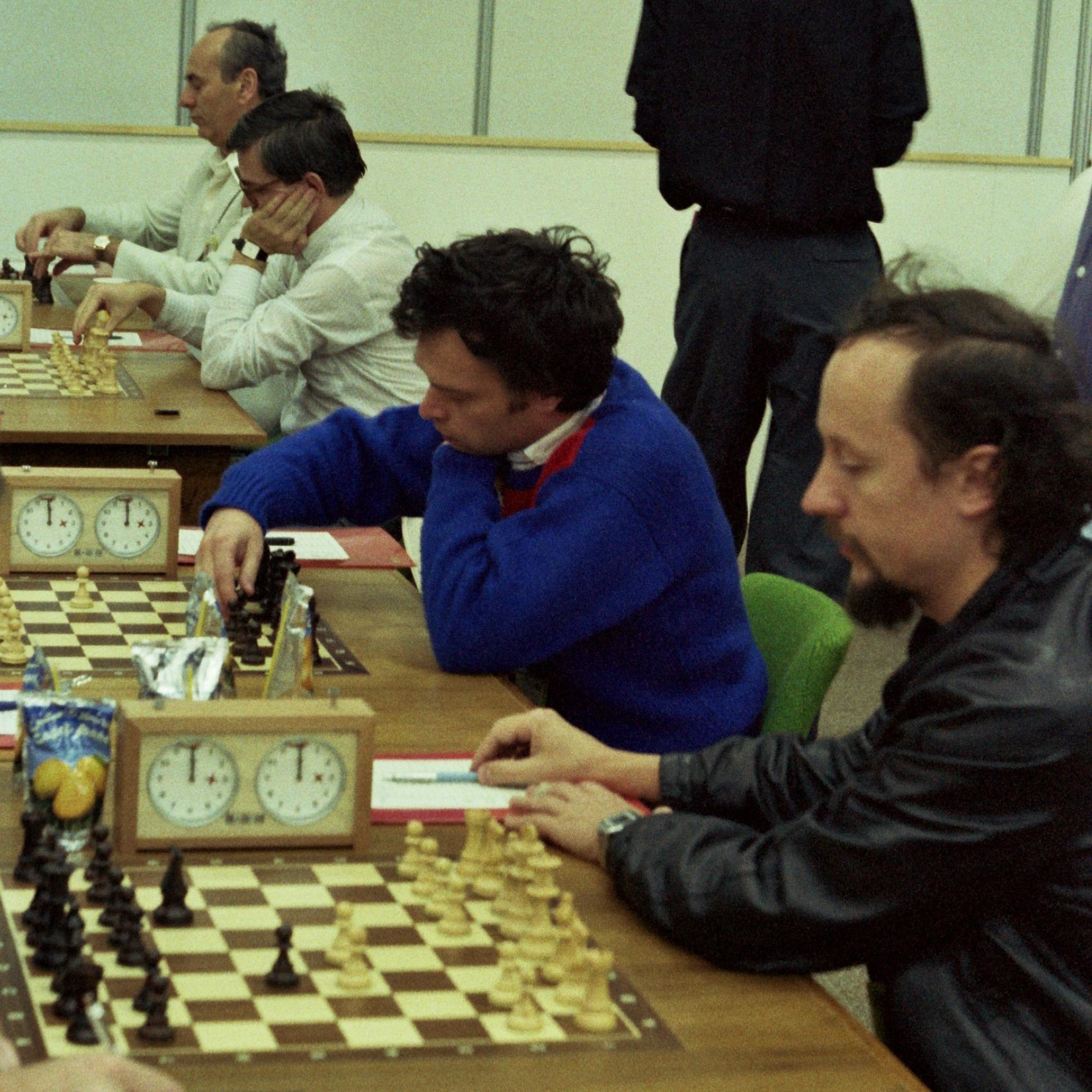 Chess Olympiad 1986 (Lajos Portisch, Zoltán Ribli, Gyula Sax, József Pintér), Photographer Gerhard Hund.